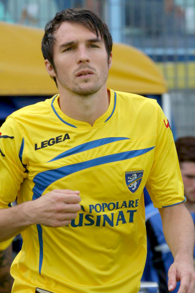 Robert Gucher, Frosinone football player